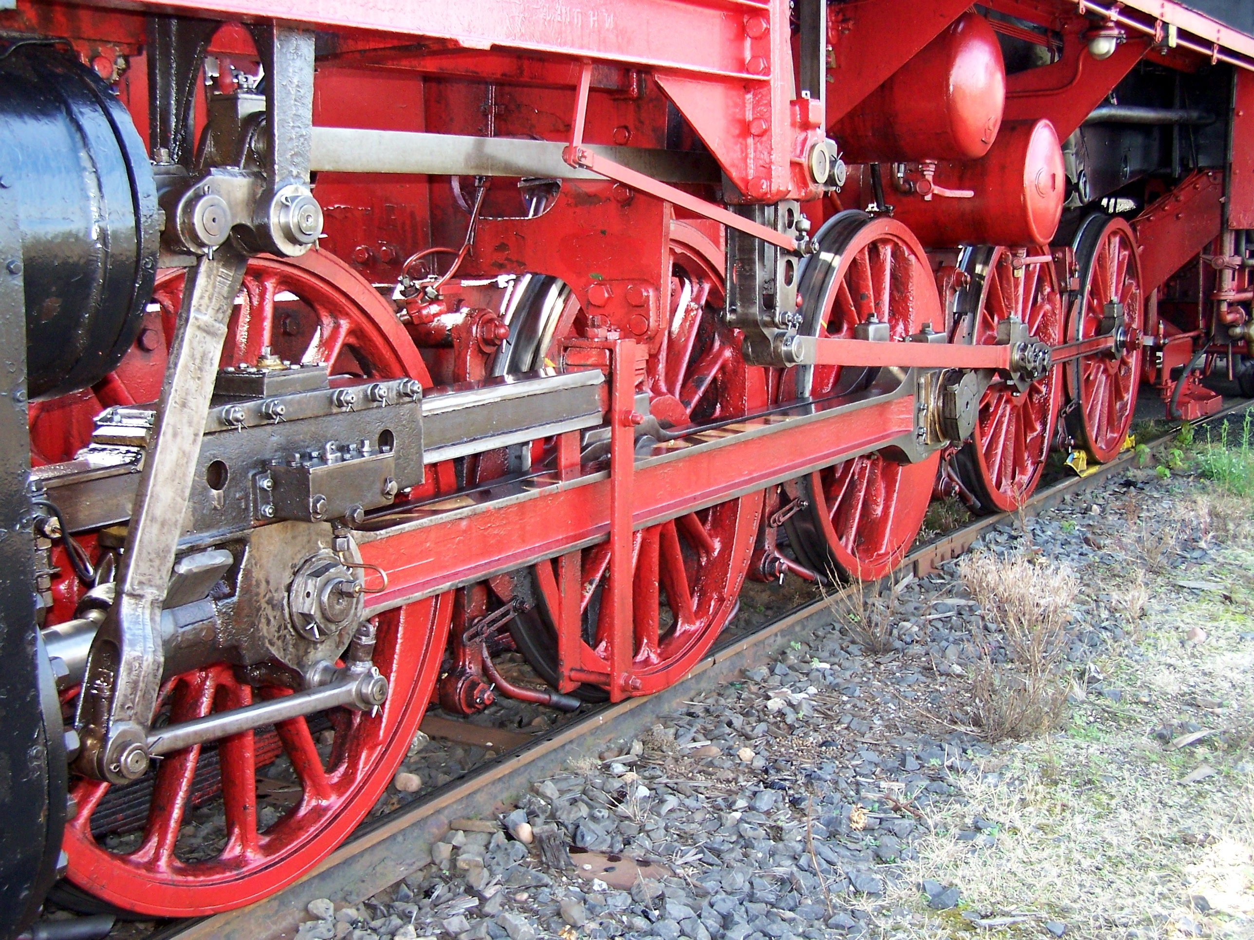 driving axes of steam locomotive 52 4867 of the Historische Eisenbahn Frankfurt in Frankfurt am Main on the Hafenbahn ground.